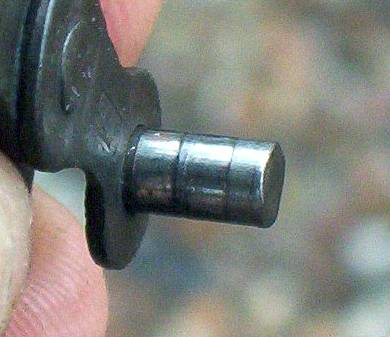 Bicycle chain pin wear